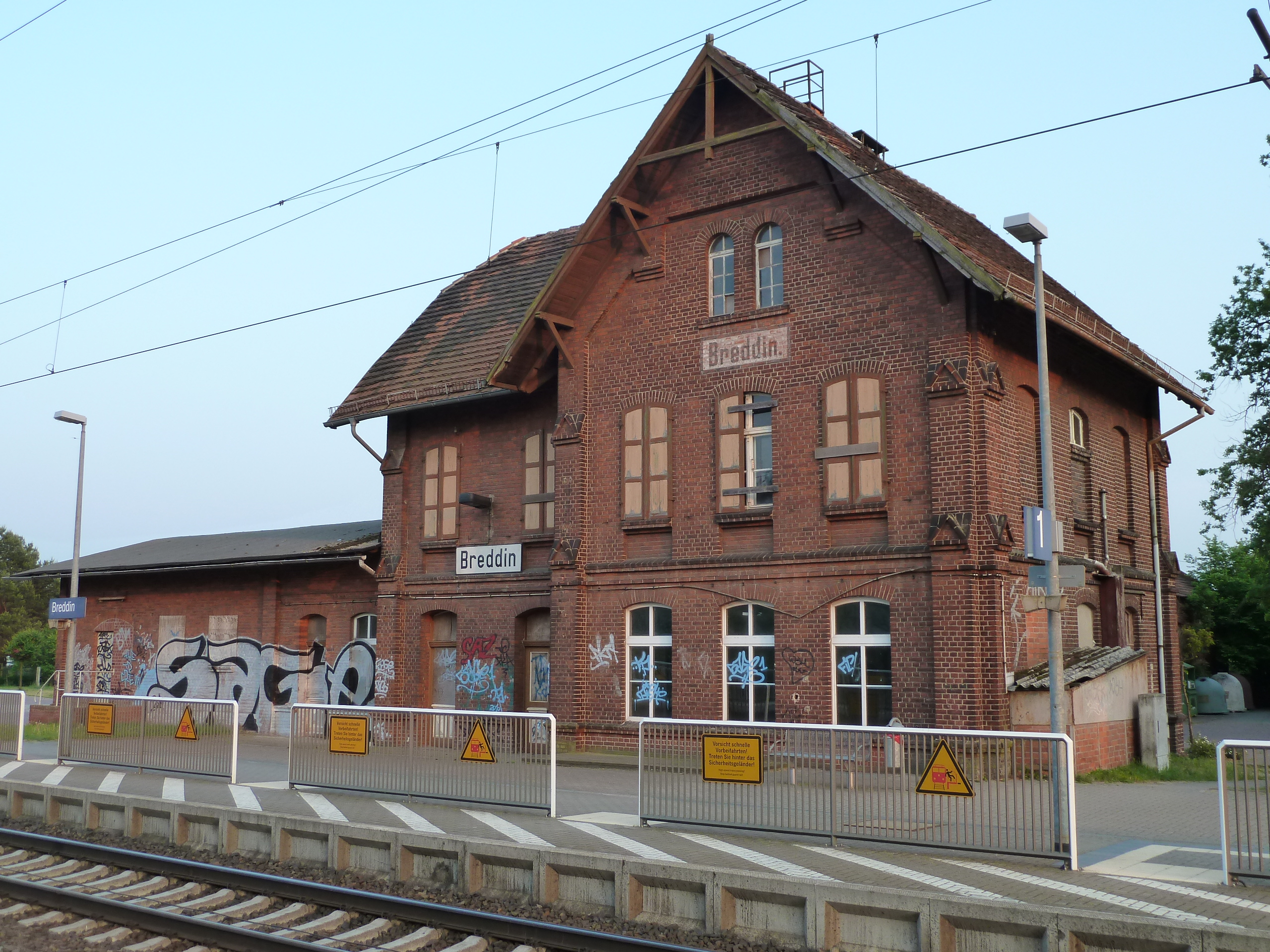 Breddin station, station building and freight shed, line Berlin-Hamburg